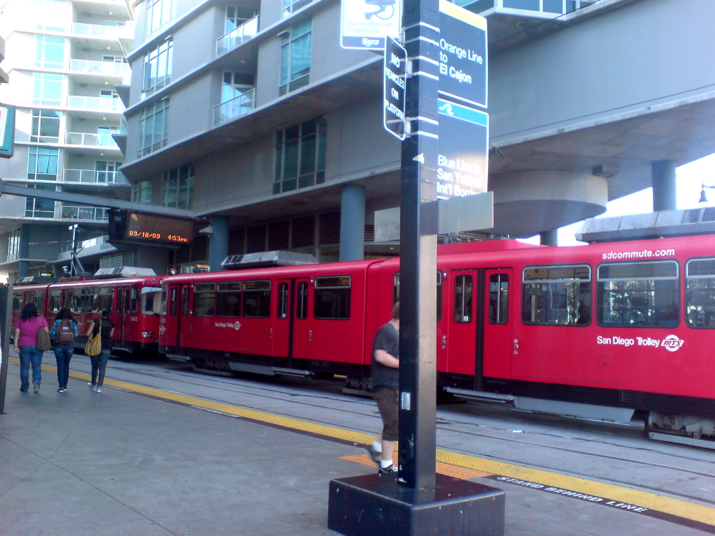 City College station